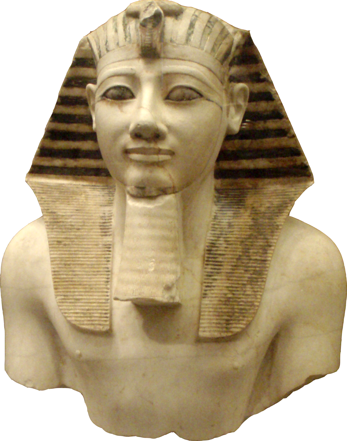 Marble statue torso of Thutmose III, background cropped out using PhotoShop. A reconstruction, originally from Thebes, Deir el Bahri, Mortuary Temple of Thutmosis III, Torso at the Metropolitan Museum of Art, Inv. 07.230.3, with the original face at at the Egyptian Museum Cairo (Ground Floor, Room 12), Inv. JE 90237. H: 39,5 cm